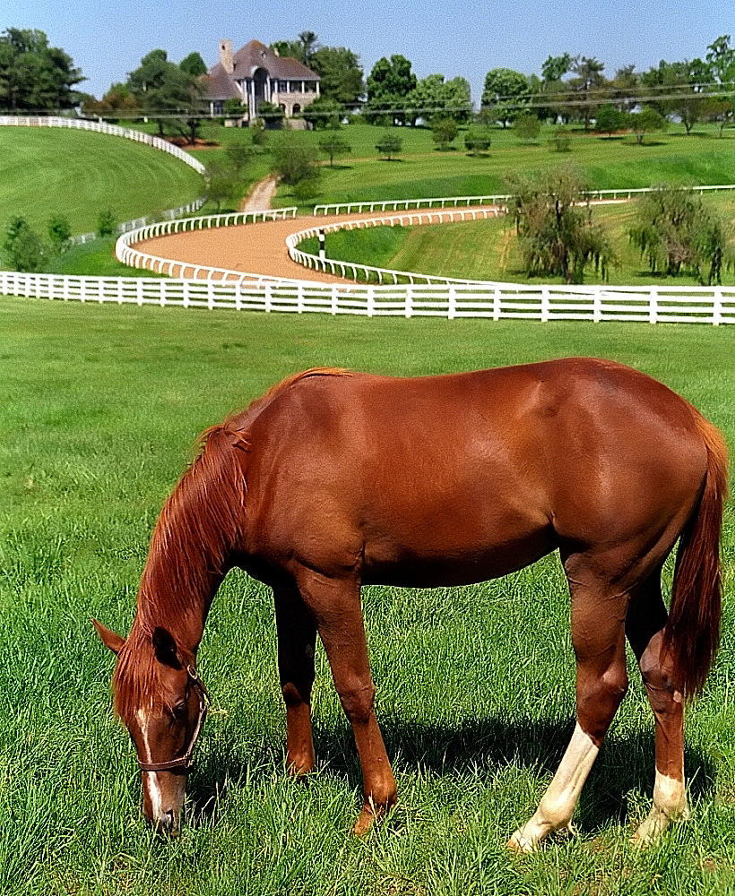 Lexington Kentucky - Donamire Farm "The Good-Life for Horse"